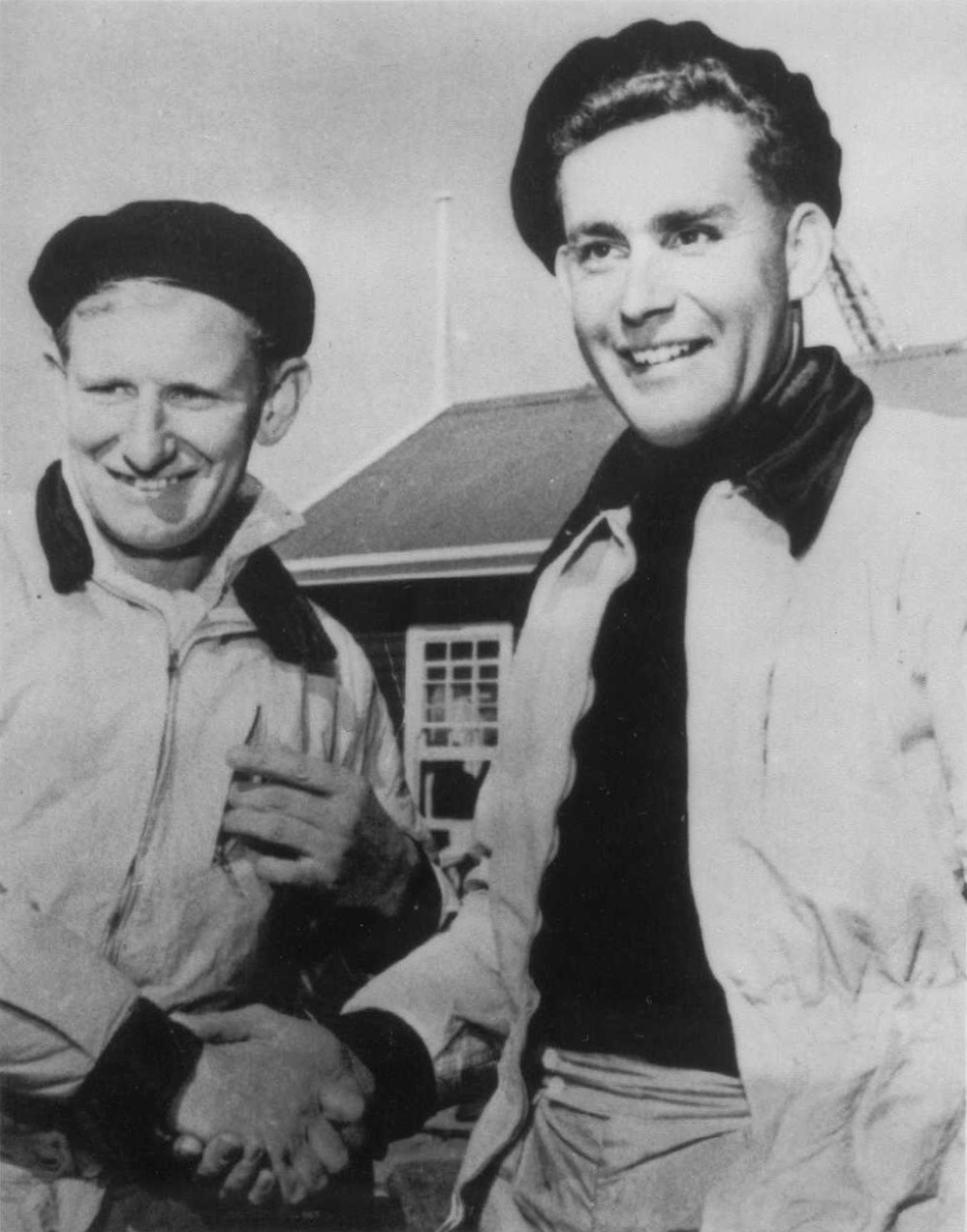 Jack Cropp (1927-2016; on the left) and Peter Garth Mander (1928-1998; on the right), in 1956.